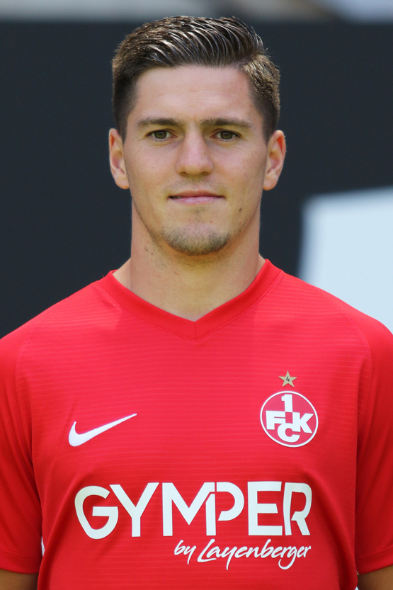 Dominik Schad (Nr. 20)